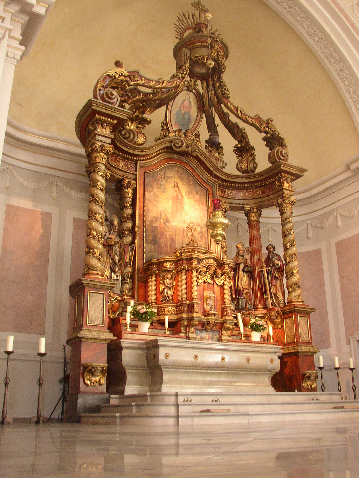 Haren altarpiece of „Emsland-Dome“, town of Haren (Ems), county of Emsland, Germany